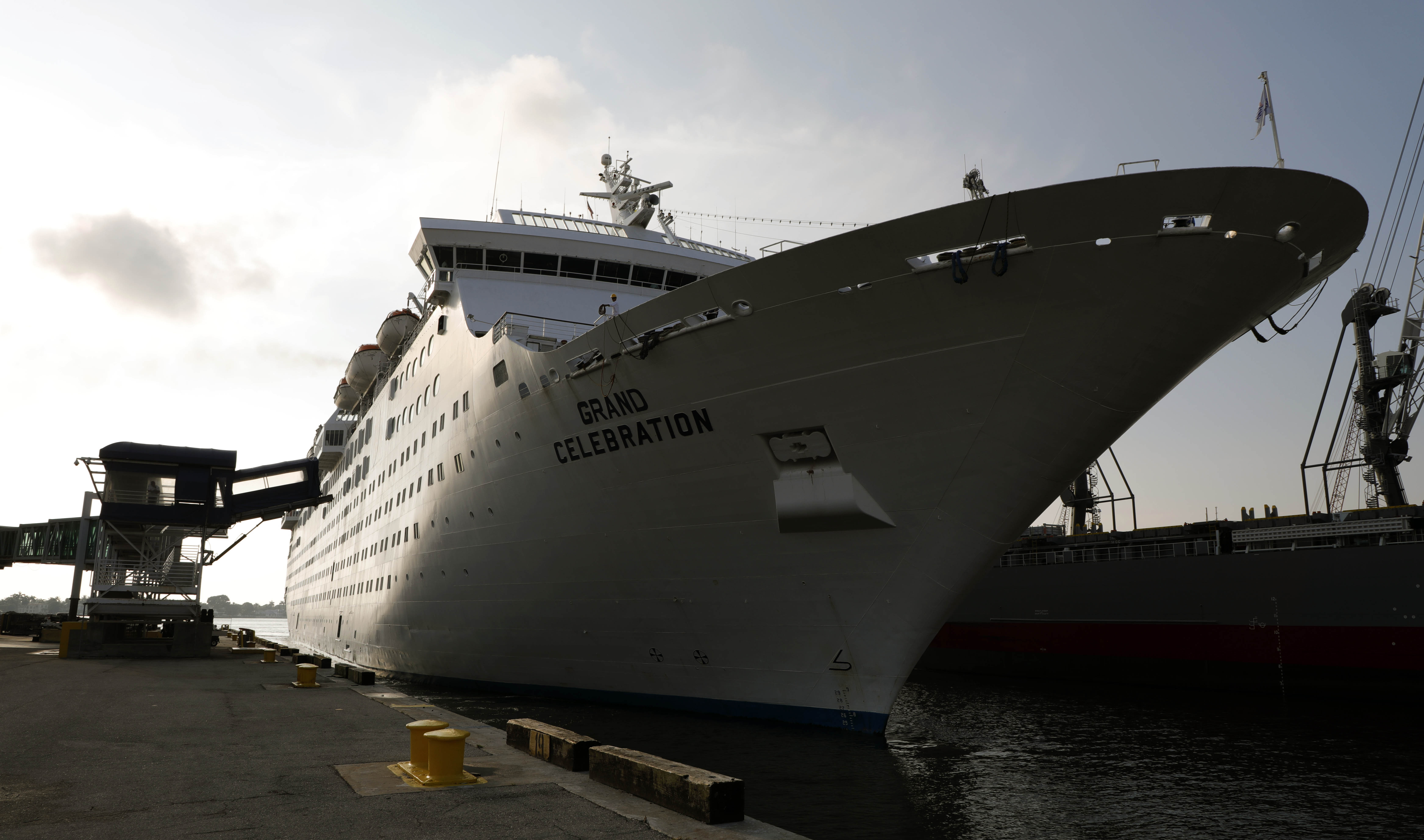 U.S. Customs and Border Protection continues to support rescue and recovery efforts in the Bahamas following the devastating impact of Hurricane Dorian. CBP is working with the Bahamas Paradise Cruise Line and is prepared to process the arrivals of passengers evacuating from the Bahamas according to established policy and procedures, in the Port of Palm Beach, Fla., Sept. 7 2019. CBP photo by Jaime Rodriguez Sr.